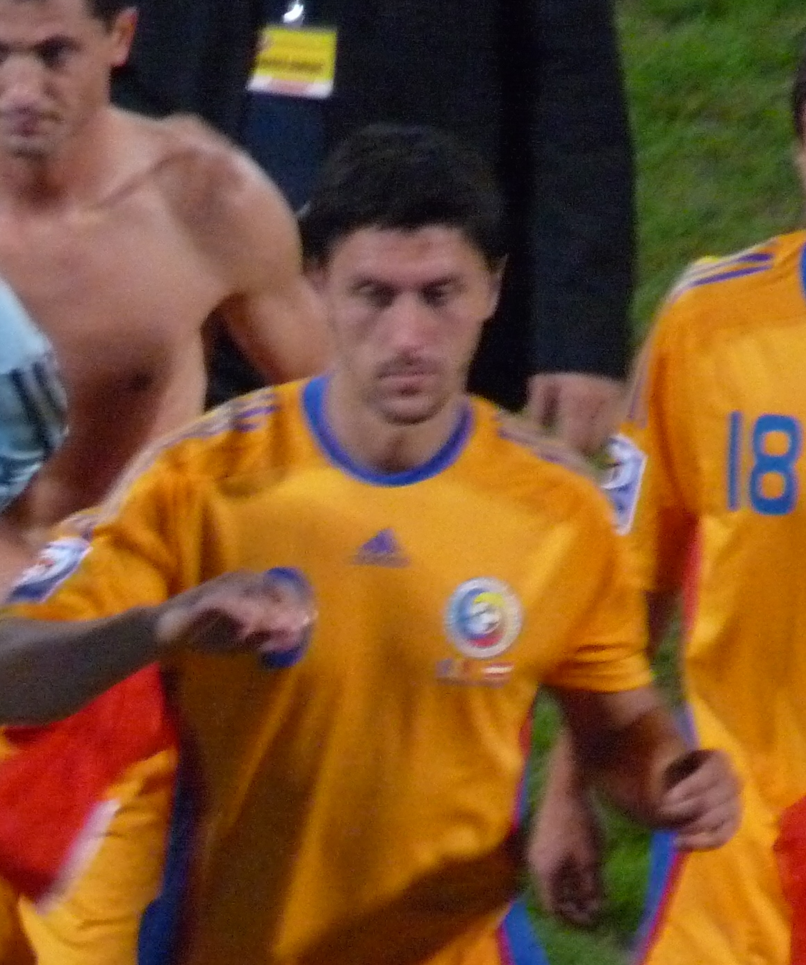 Ciprian Marica playing for the national football team of Romania against Austria on the Steaua stadium in Bucharest